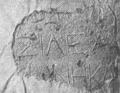 An inscription mentioning a king with the title Epiphanes